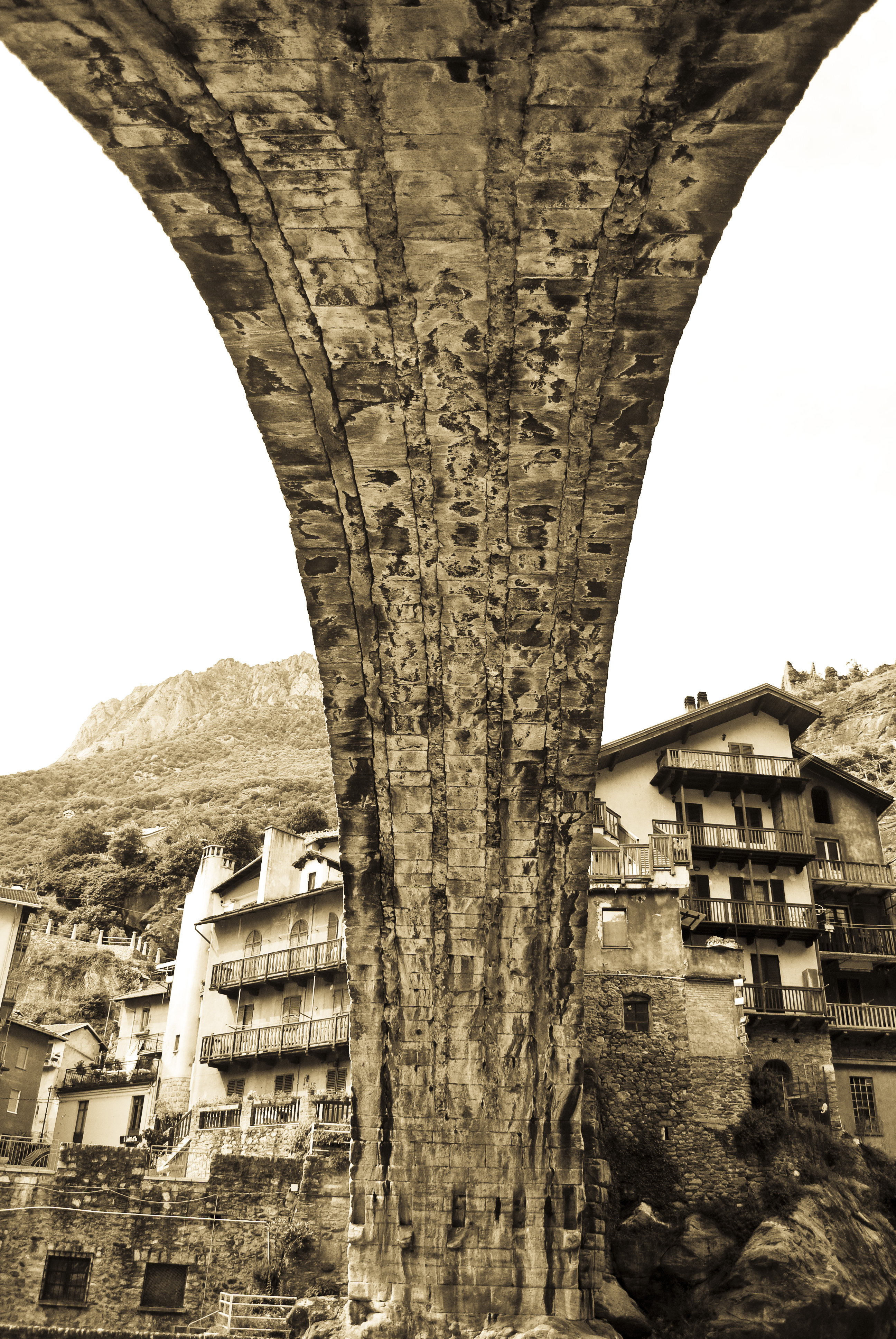 The Roman bridge Pont-Saint-Martin in the municipality of the same name, Aosta Valley, Italy